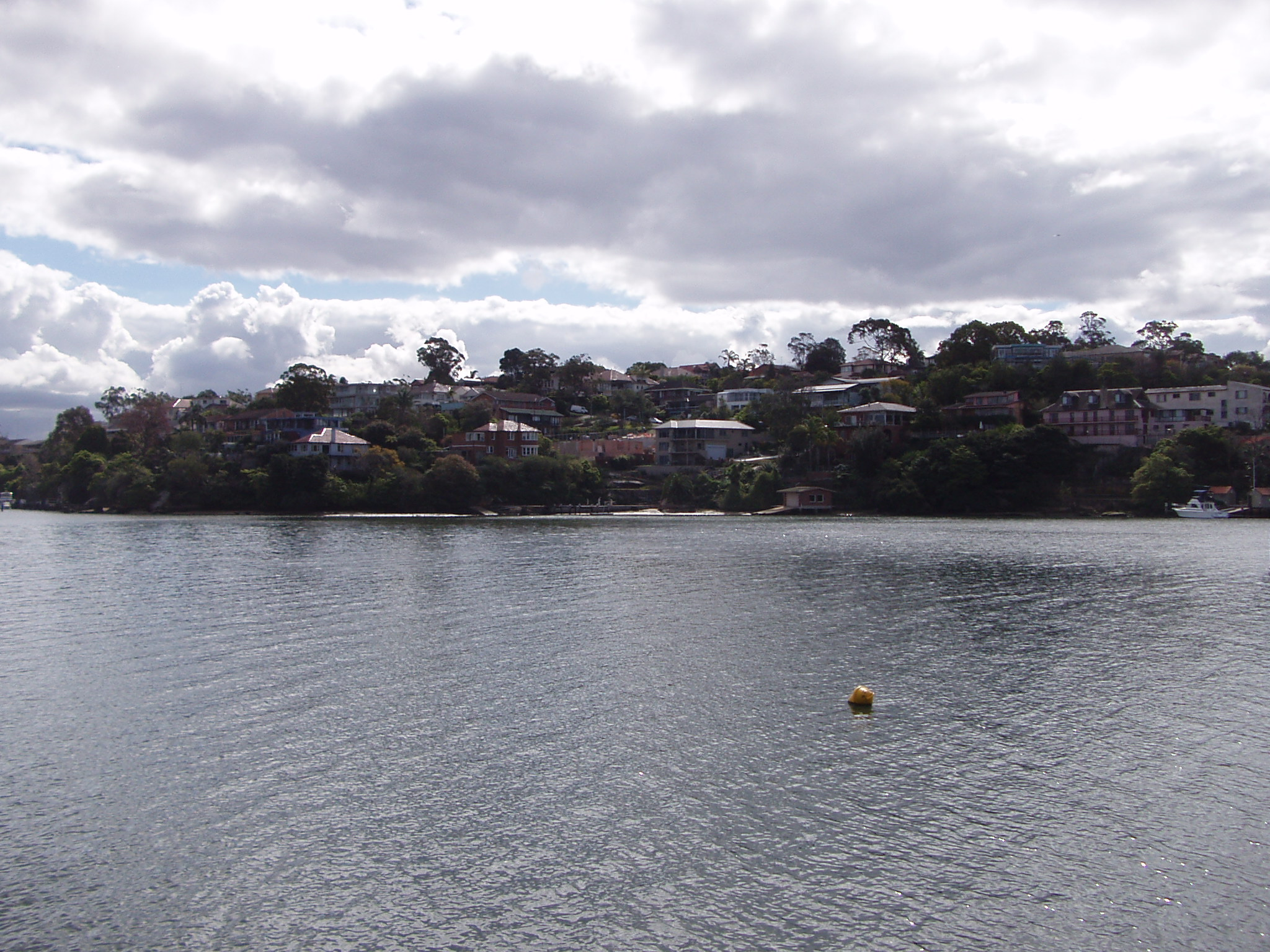 Waterfront of Linley Point, New South Wales, taken from Hunters Hill, New South Wales